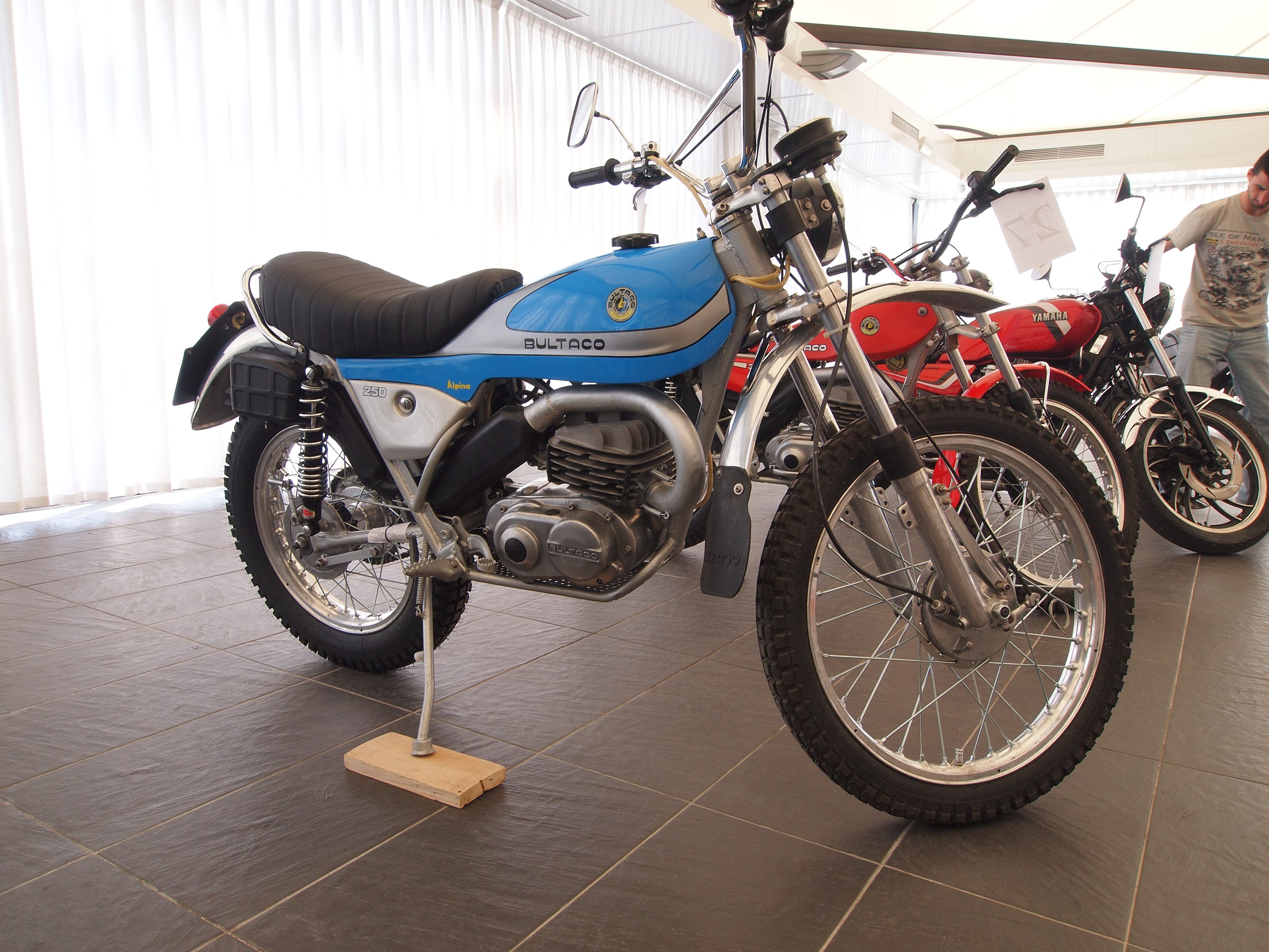 Bultaco Alpina 250cc motorcycle, at exhitibion in Zamora (Spain, 2012)